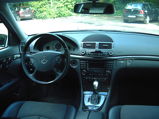 A 2002 German-spec Mercedes-Benz E320 Avantgarde (W211) interior. Photographed by: Christian Wimmer, 2005